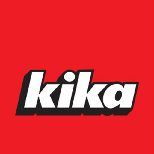 kika Logo